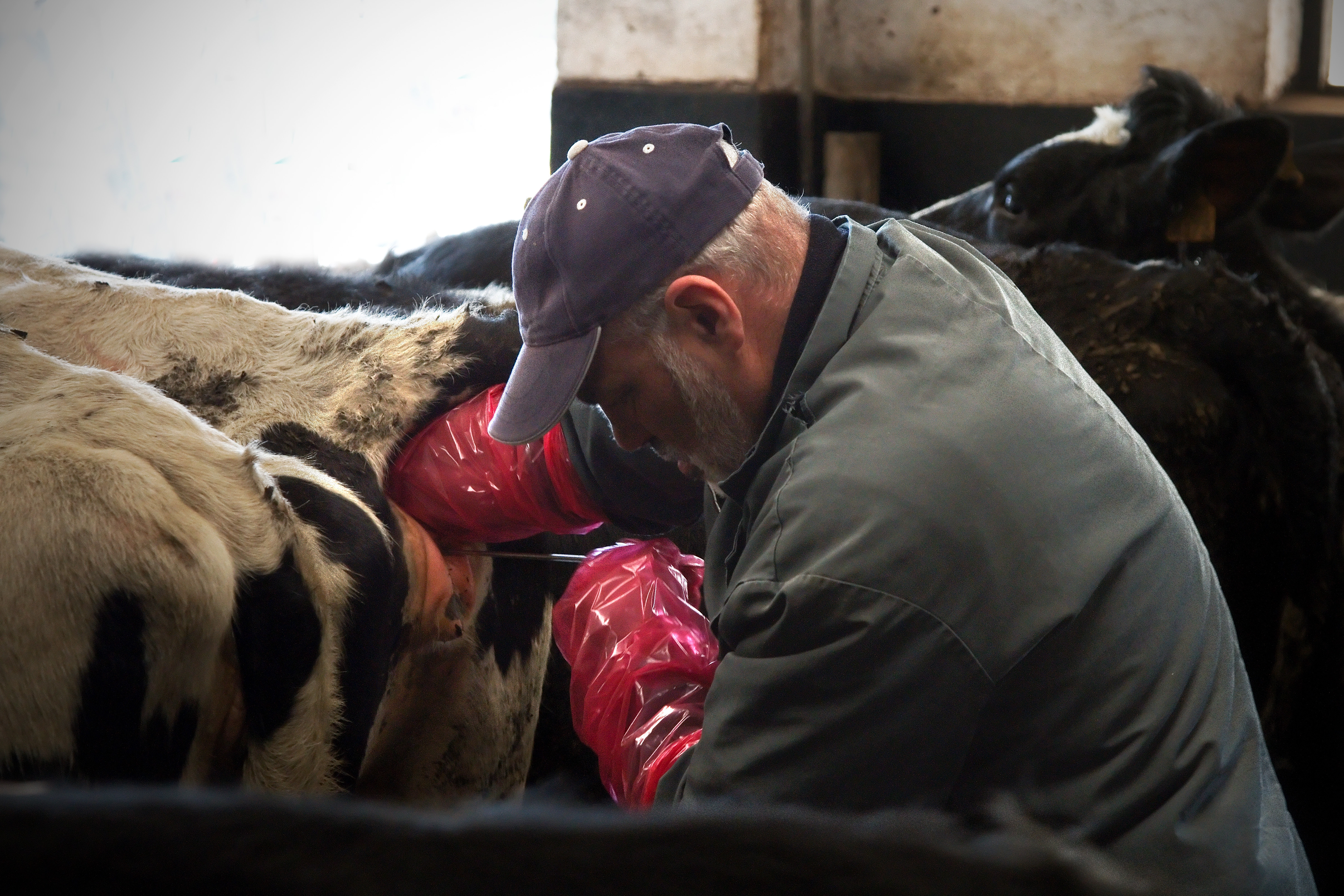 A man engaging in artificial insemination of a cow